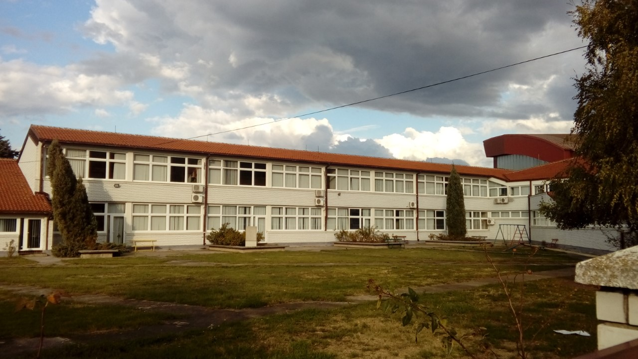 Primary school in Golubac Srpski (latinica): Osnovna škola "Branko Radičević" u Golupcu